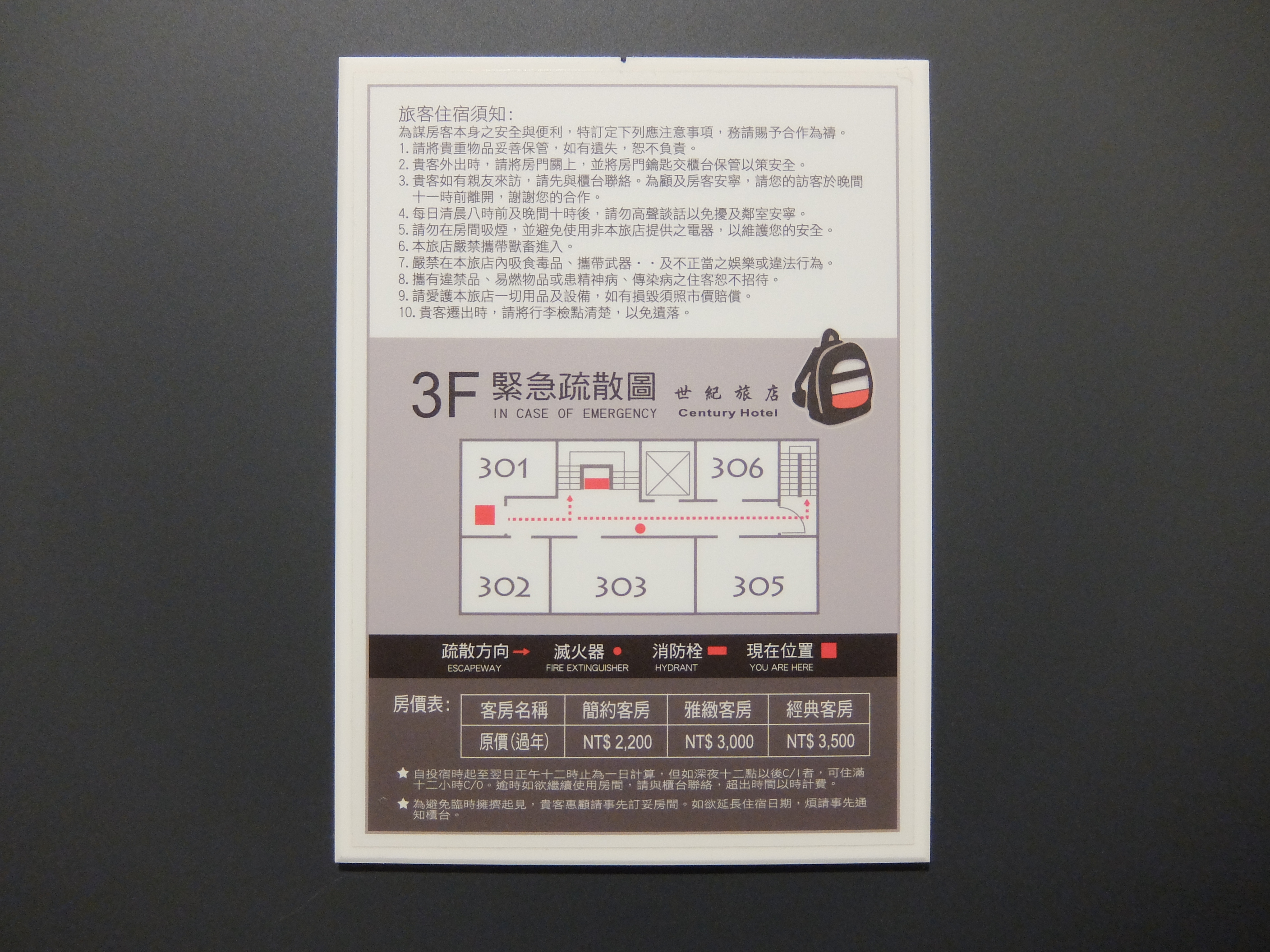 Century Hotel, No. 85-5, Lingya 2nd Road, Lingya District, Kaohsiung City, Taiwan